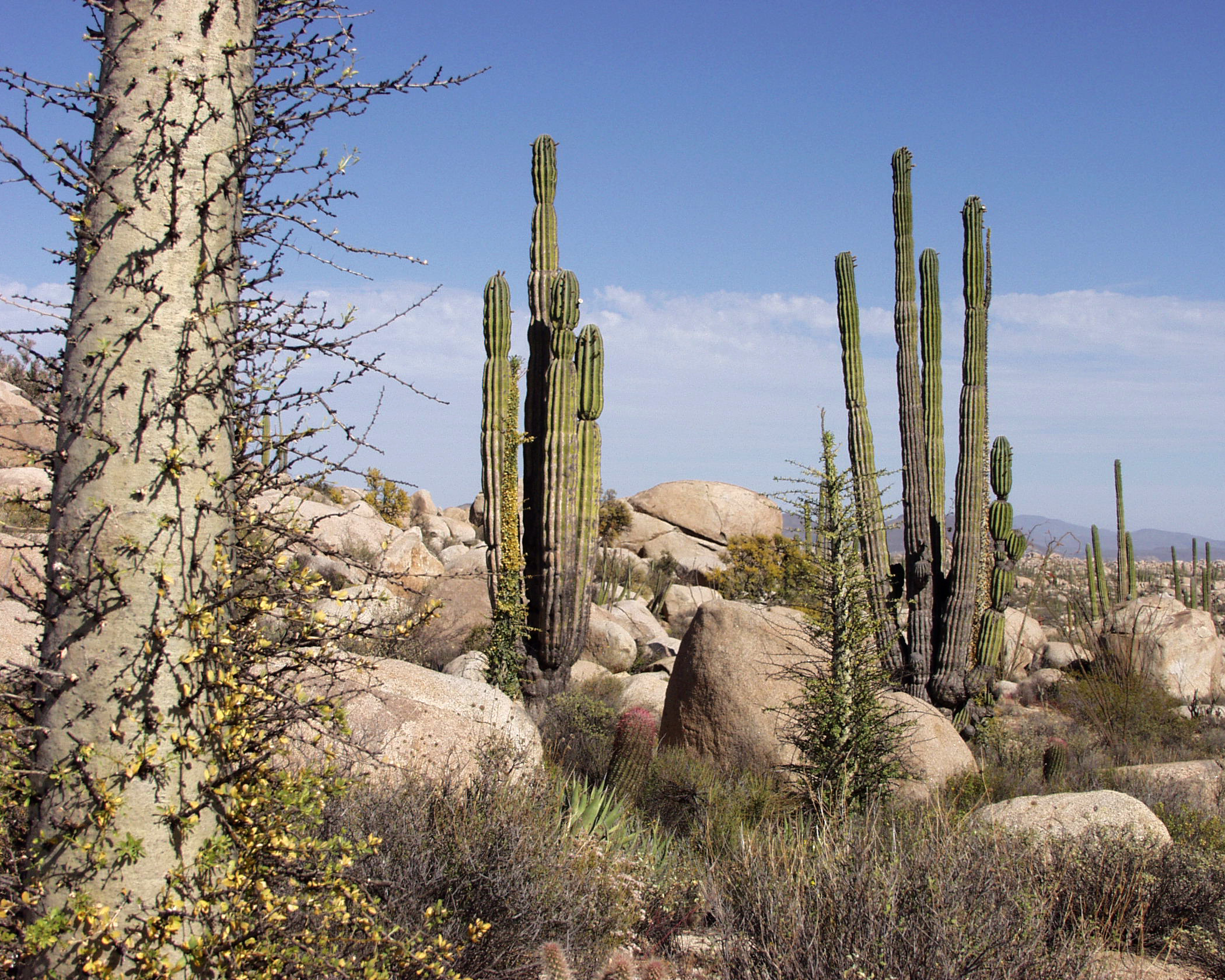 Baja California Desert in the Cataviña region, south of Ensenada, Mexico. Cardon cactus.